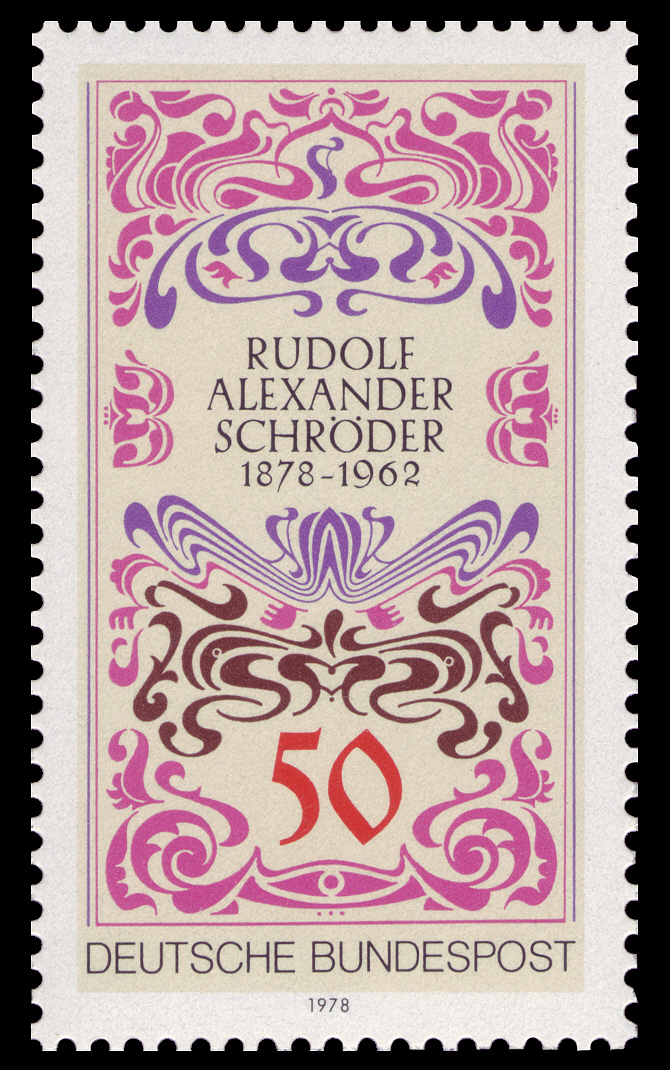 100th day of birth of Rudolf Alexander Schröder (1878—1962) Graphic designer: Jacki Ausgabepreis: 50 Pfennig First Day of Issue / Erstausgabetag: 12. Januar 1978 Michel-Katalog-Nr: 956